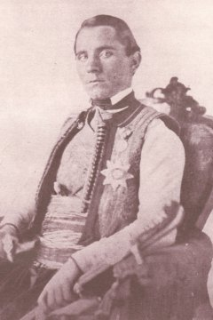 Knyaz Danilo